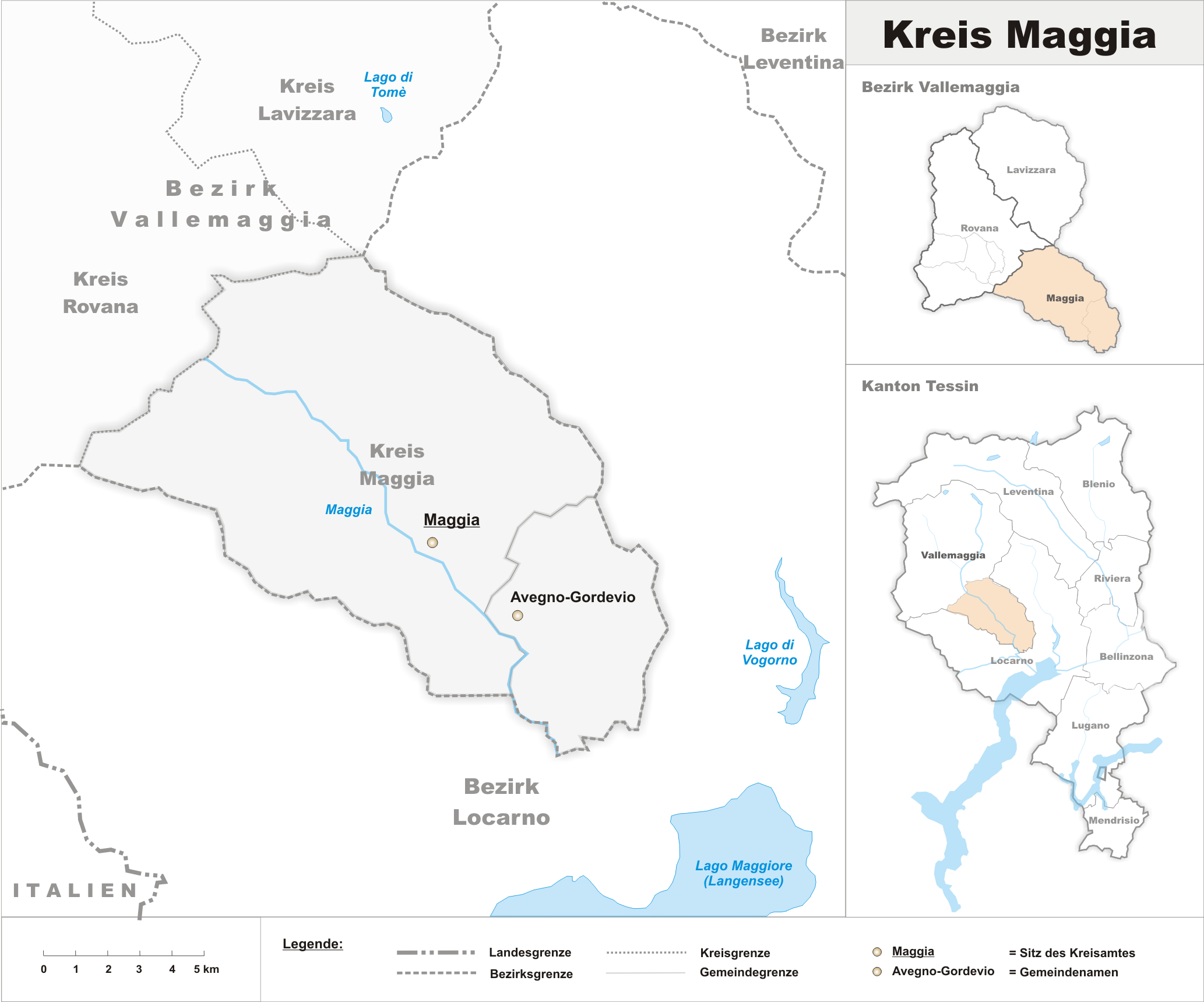 Municipalities in the circle of Maggia